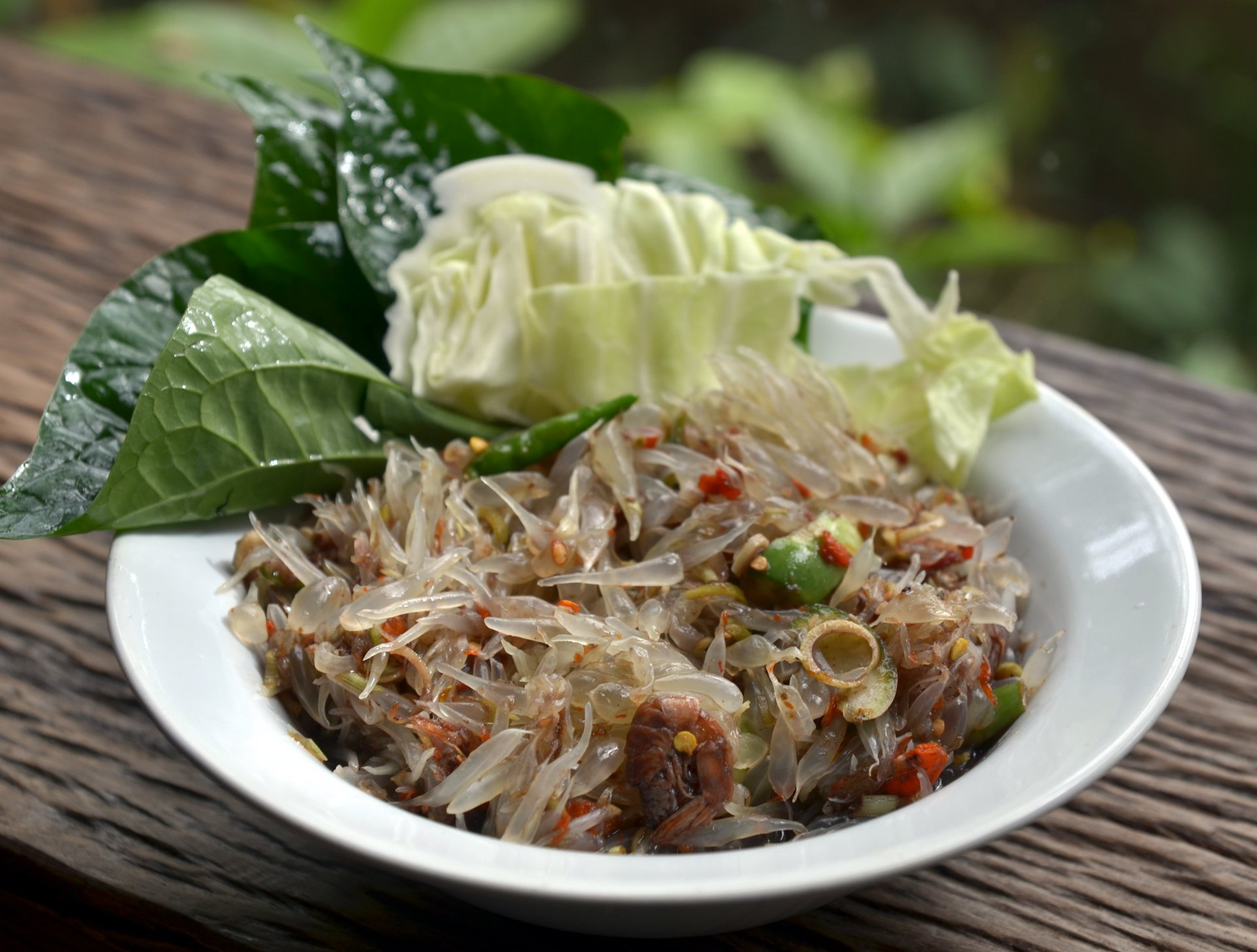 Tam som-o nam pu (Thai script: ตำส้มโอน้ำปู) is a northern Thai speciality. It is a pomelo salad which uses crab extract as a flavouring. This black sauce is achieved by pounding pu na ("ricefield crabs", Somanniathelphusa) to a pulp, and then straining the juices which are then boiled until the sauce becomes as thick as molasses.